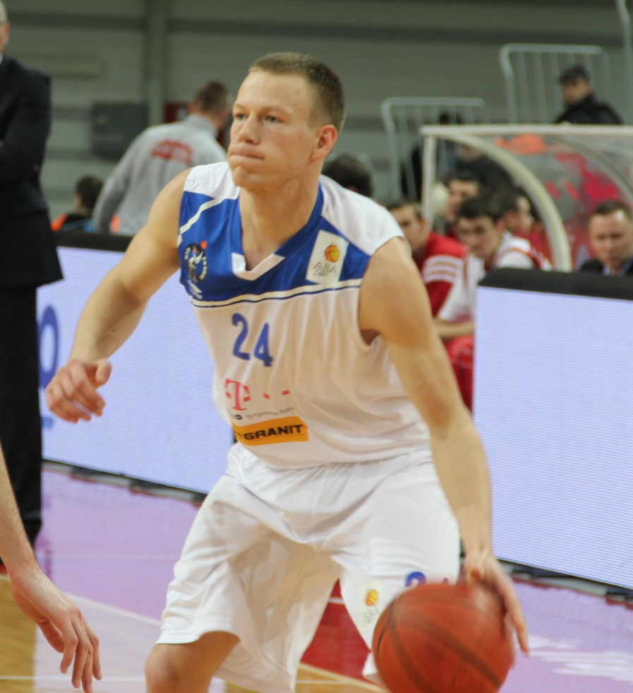 шеховиќ